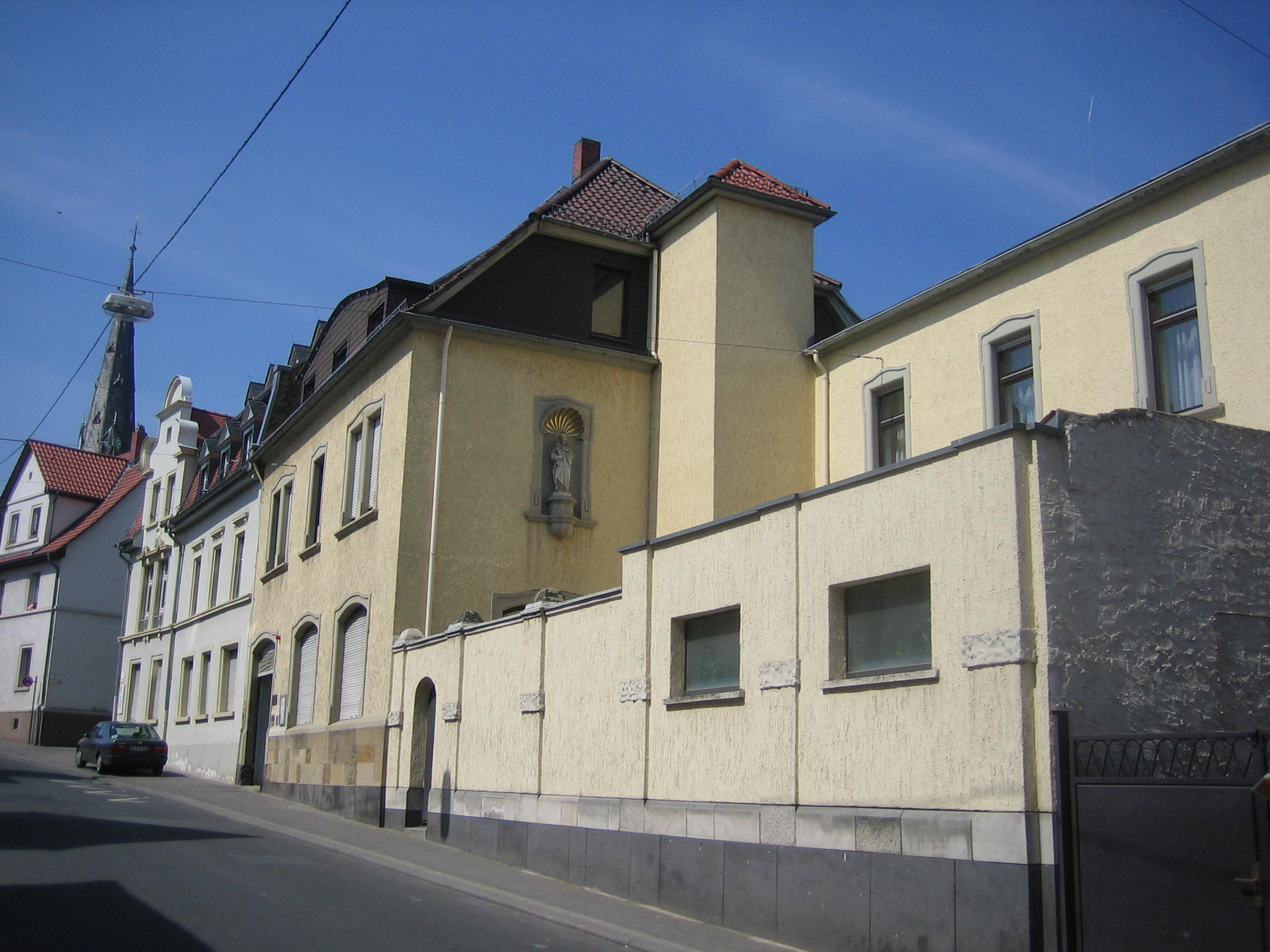 mother house of the Congregation of the Sisters of Divine Providence in Mainz